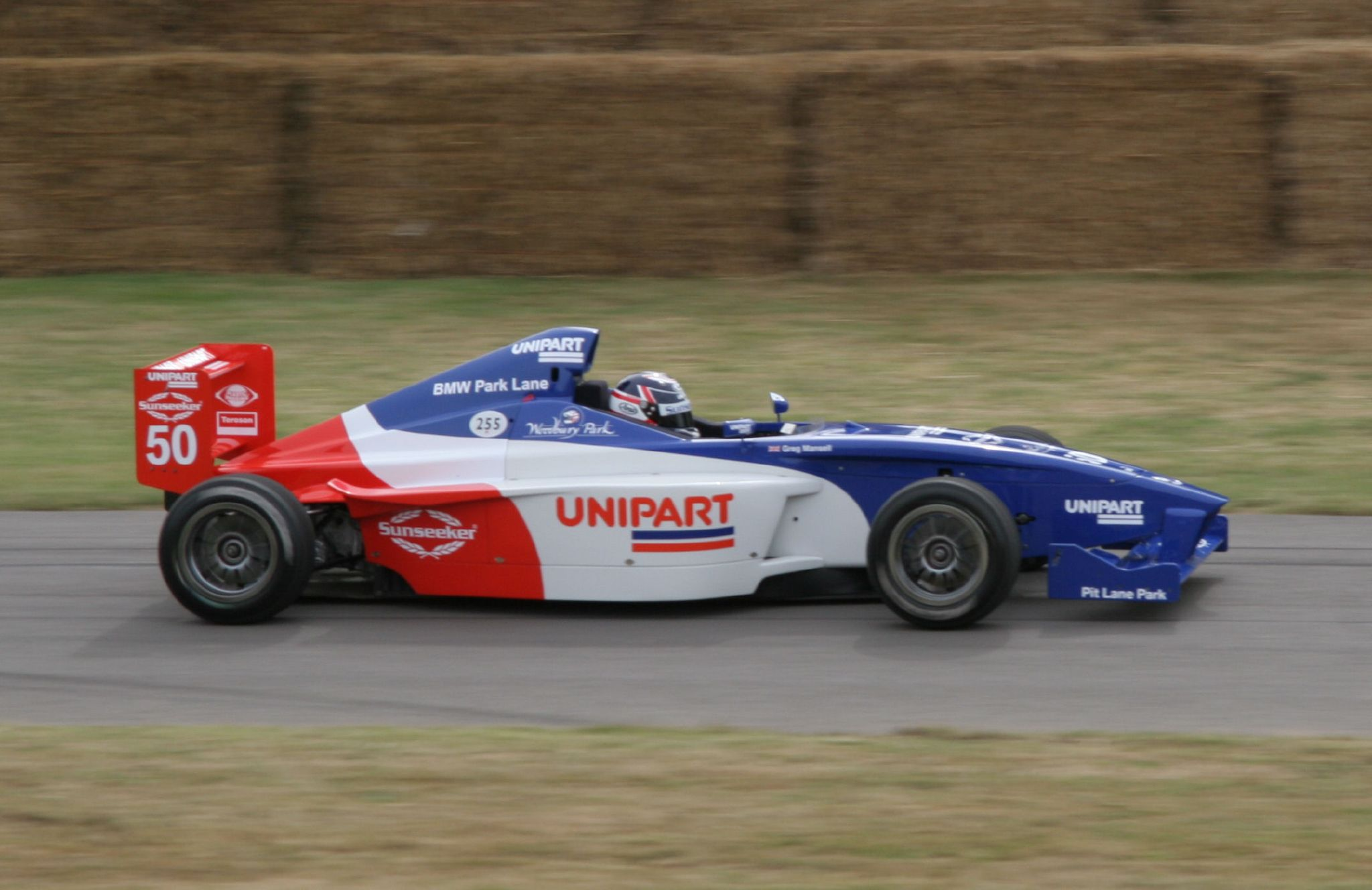 Greg Mansell's Formula BMW Car, being exhibited at the 2006 Goodwood Festival of Speed